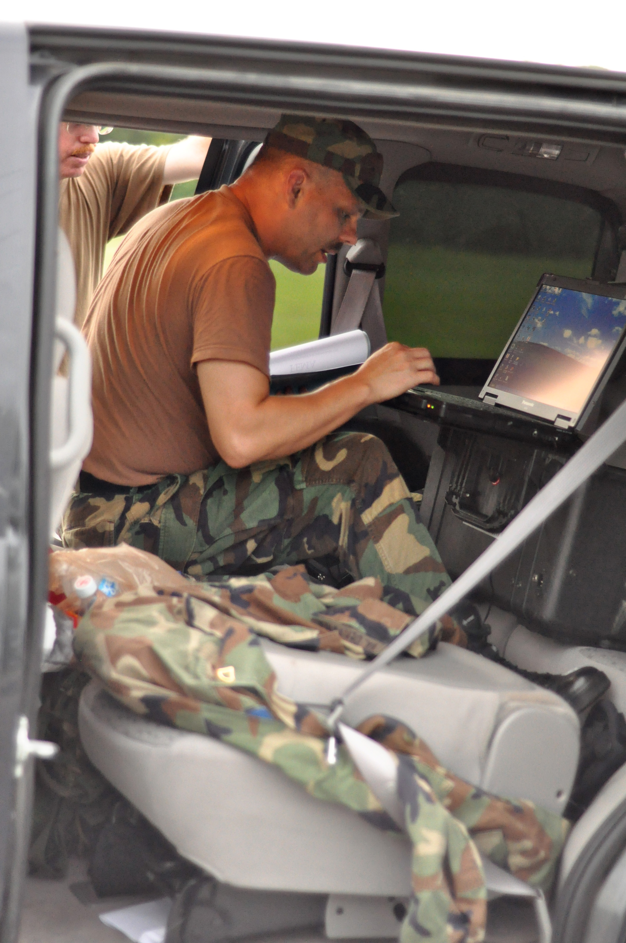 Members of the Virginia Defense Force Incident Management Assistance Team in Onancock prepare for possible duty in response to Hurricane Irene August 26 by setting up a TAC-PAC to provide communication between Virginia National Guard Soldiers on duty across the commonwealth. The Virginia National Guard has been authorized to bring up to 300 personnel on state active duty for possible missions including high water transport and light debris removal. (Photo by Staff Sgt. Andrew H. Owen, Virginia Guard Public Affairs)